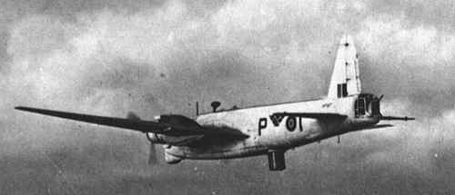 A Vickers Wellington with the Leigh Light "dustbin" under the fuselage.